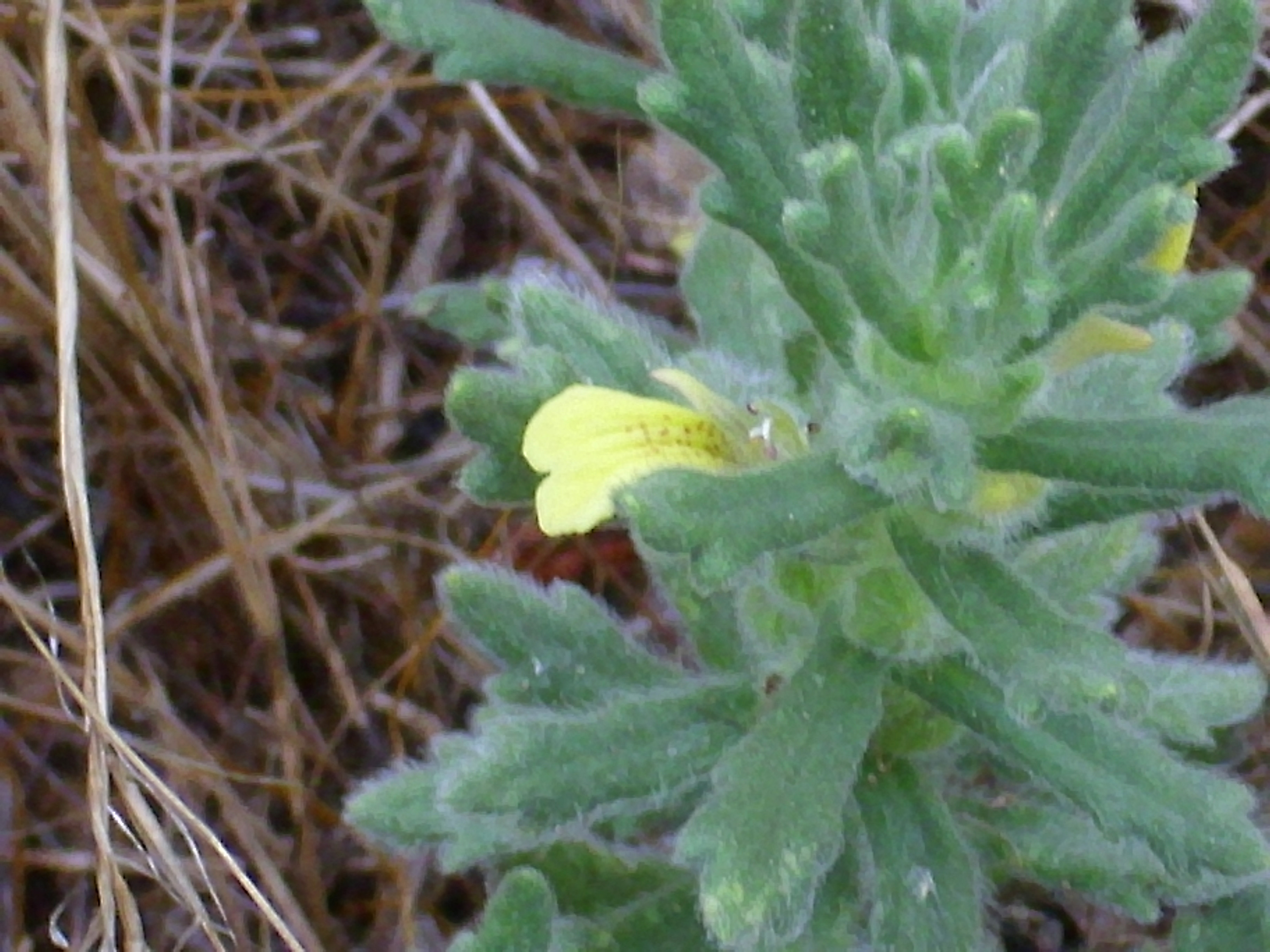 Ajuga iva subsp. pseudoiva close up, La Mata, Torrevieja, Alicante, Spain.